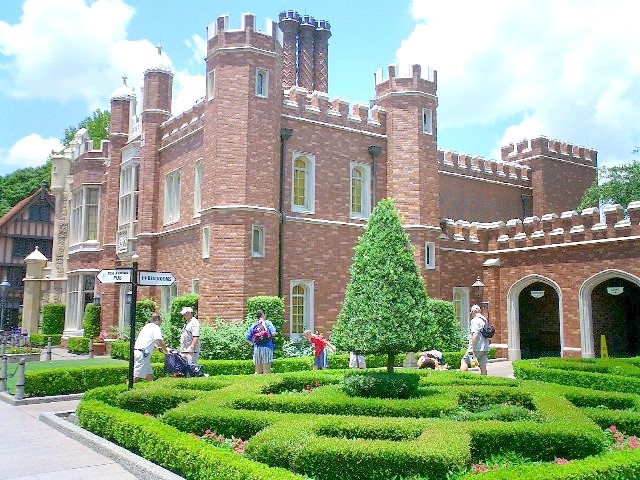 Miniature replica of Hampton Court Palace at Epcot theme park at the Walt Disney World Resort in Orlando, Florida.